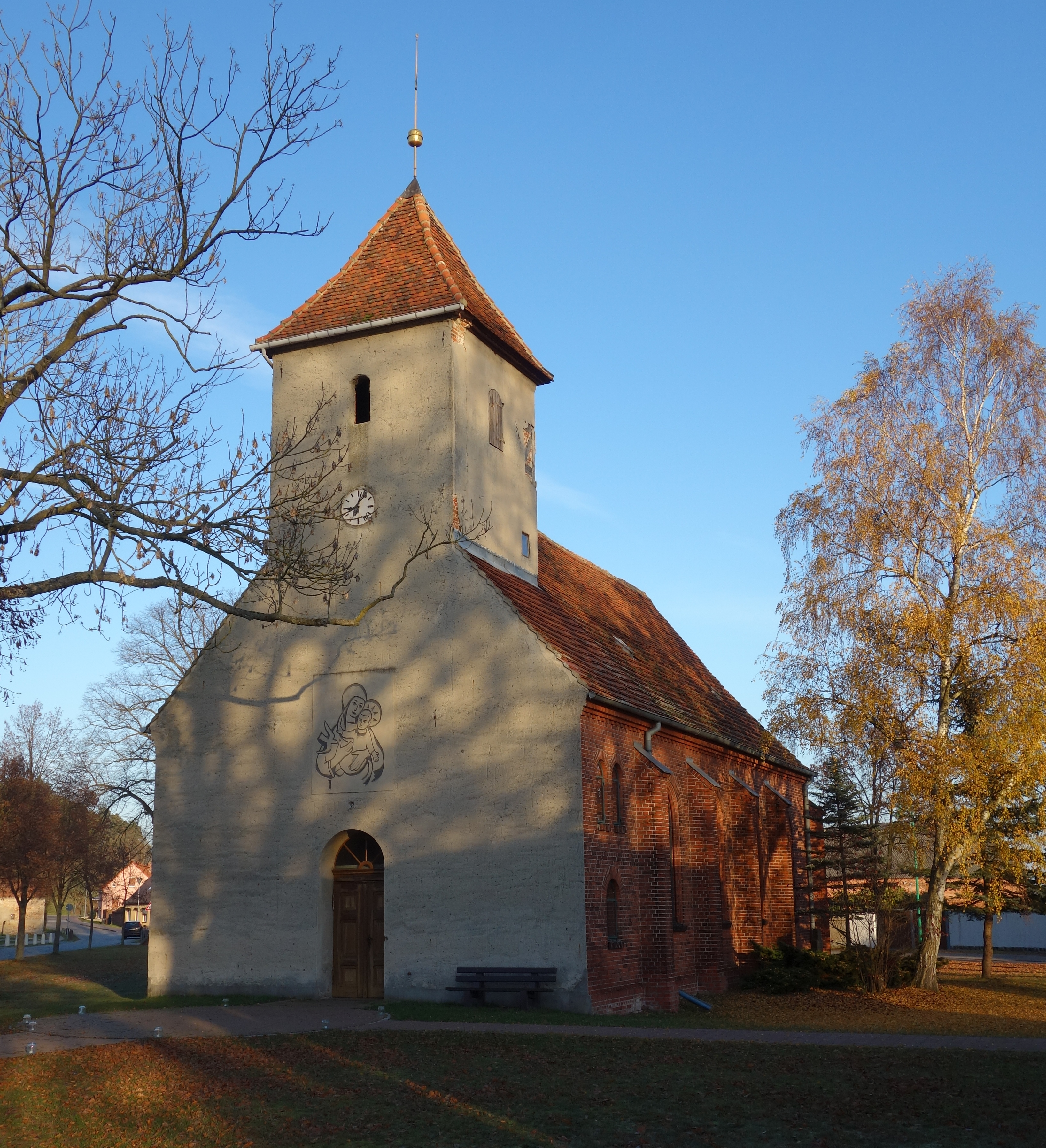 South-western view of church in Göttlin, Rathenow municipality, Havelland district, Brandenburg state, Germany